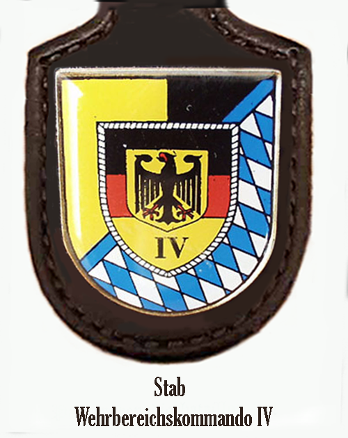 Internal coat of arms Stab Wehrbereichskommando IV (WBK IV) of the Bundeswehr (Armed Forces of the Federal Republic of Germany). → Remarks on naming and categorization scheme